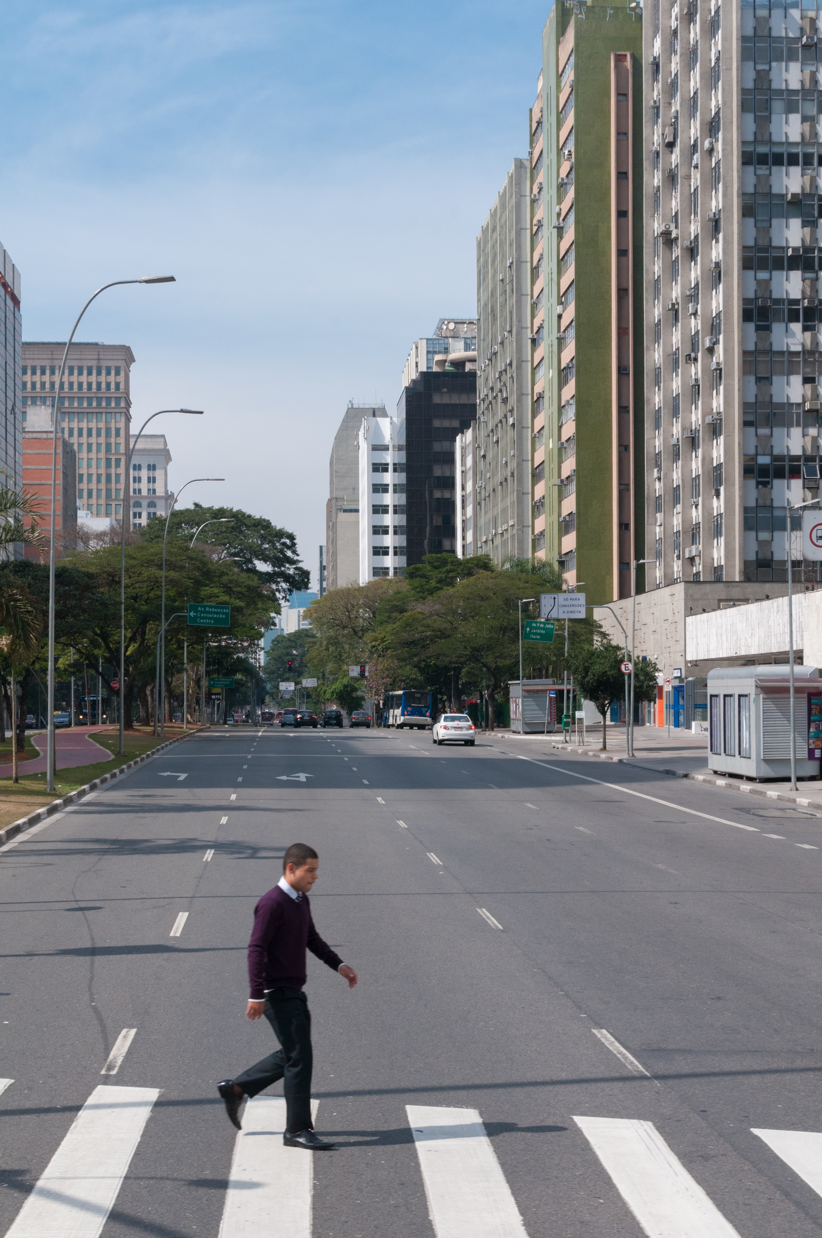 Avenida Feria Lima